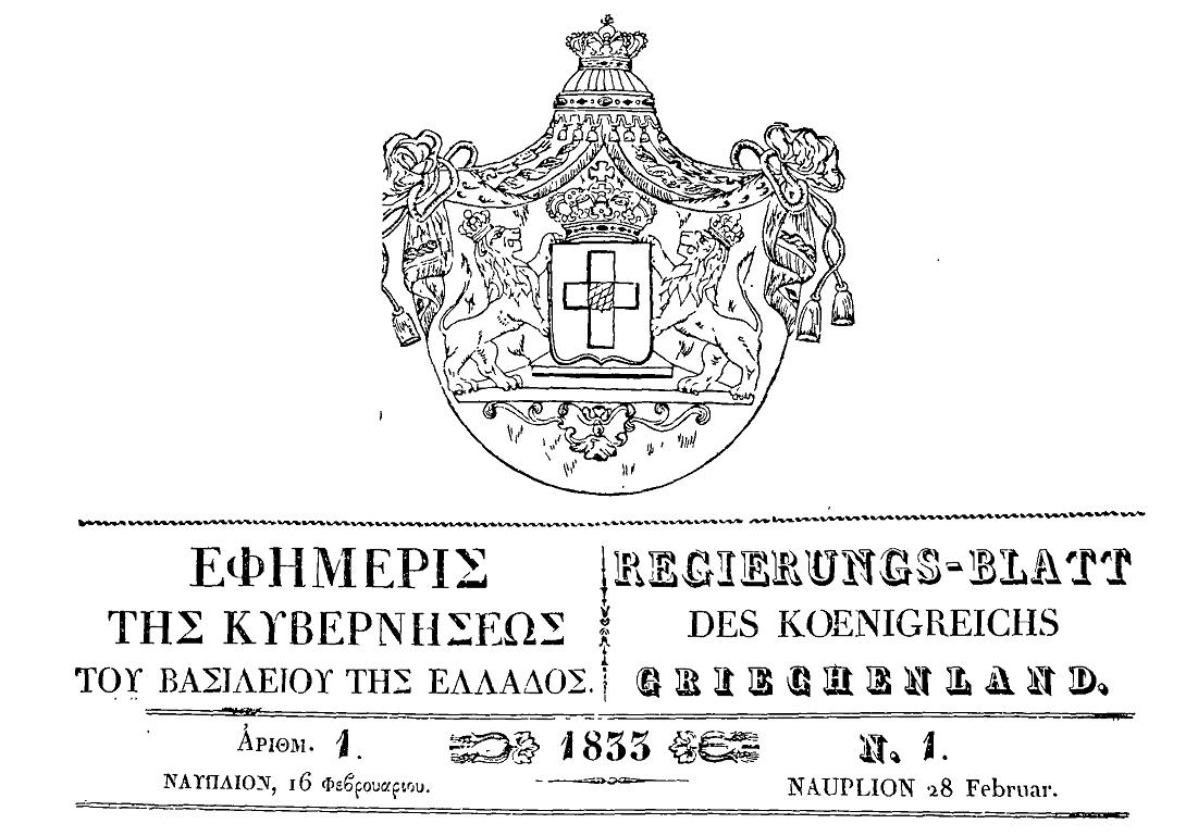 Title of the official state journal of Greece.